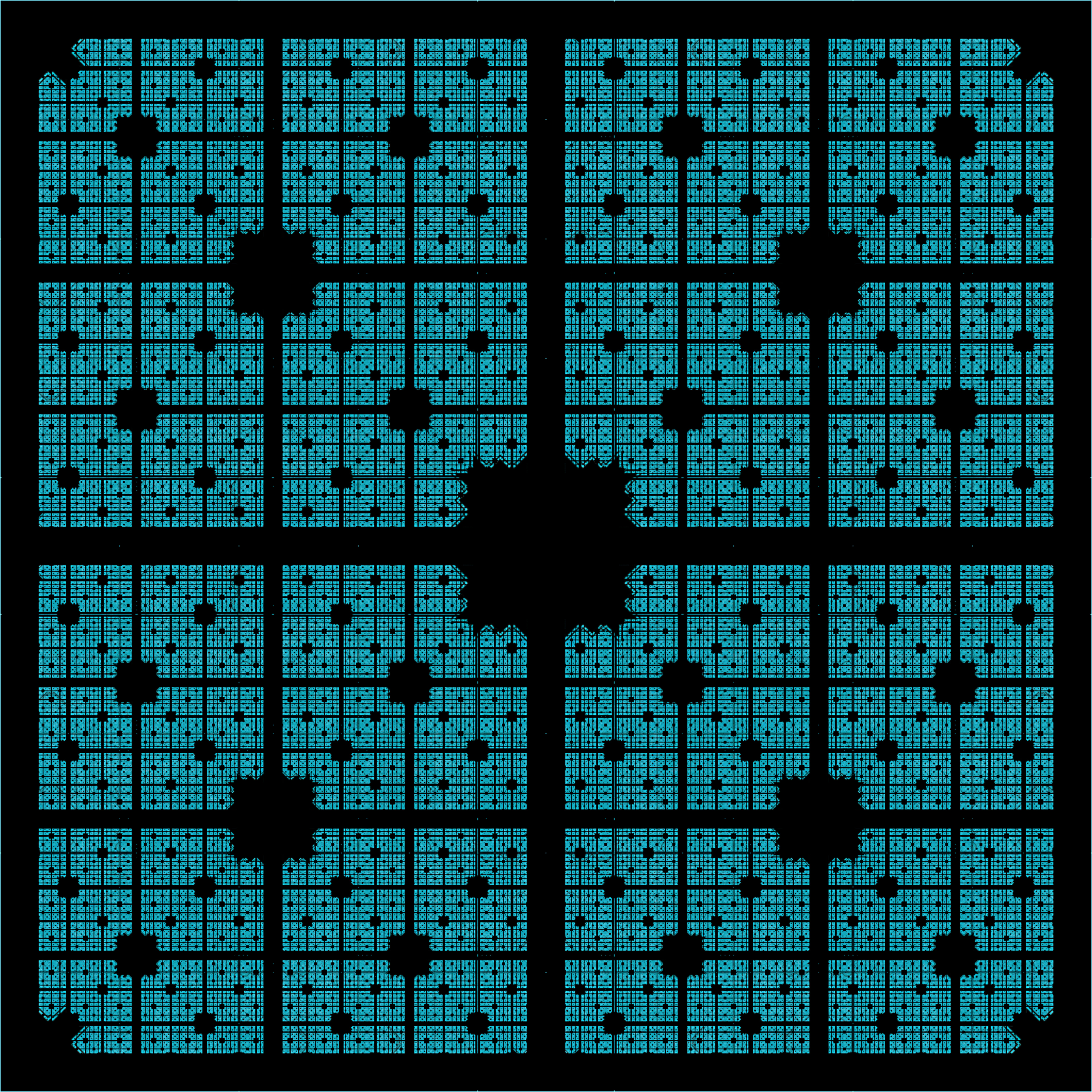 IFS fractal image made with freeware raster studio app . Made with the iterative use of seamless texture maker plugin filter and "lighten" layering blend.